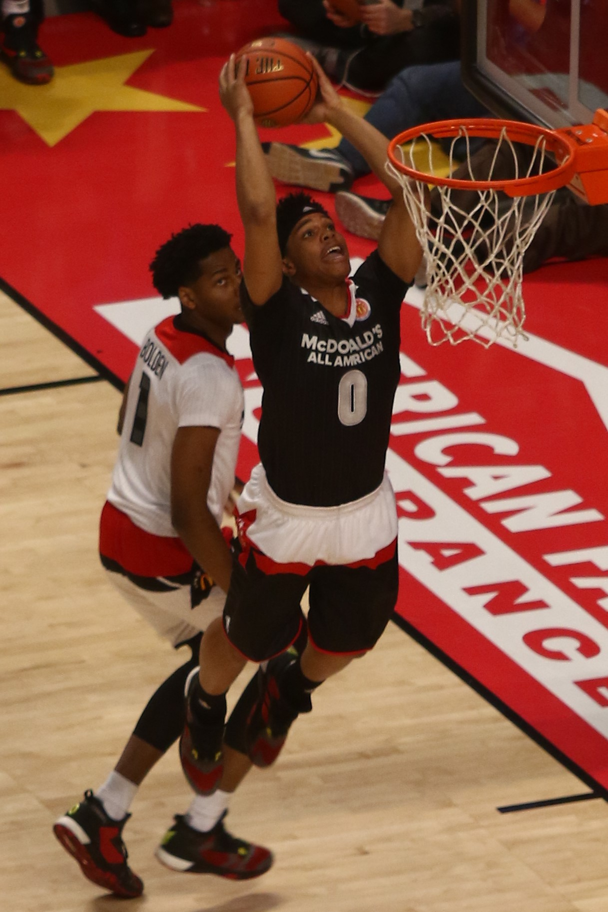 Miles Bridges in front of Marques Bolden at the w:2016 McDonald's All-American Boys Game